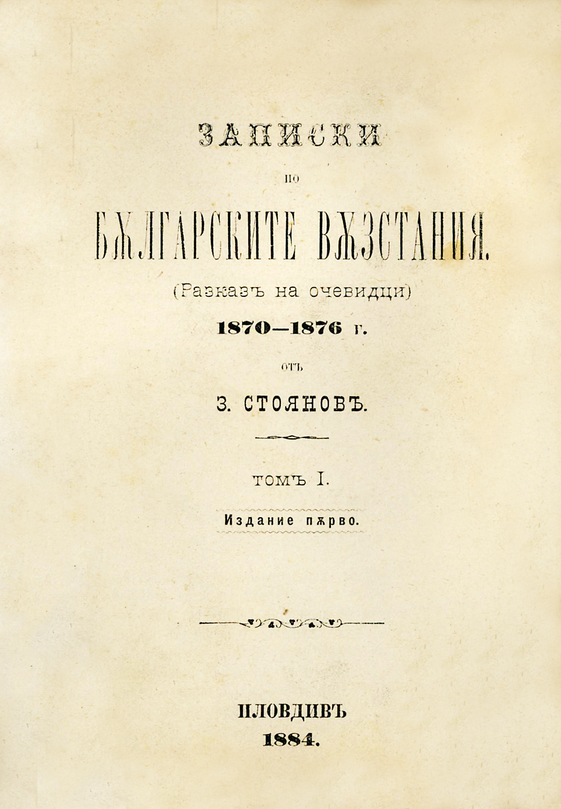 Memoirs of the Bulgarian Uprisings. Eyewitness Reports, 1st edition, 1884 Plovdiv, East Rumelia, a cover page